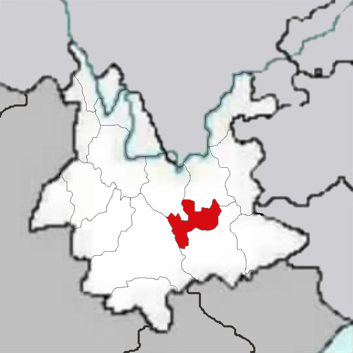 Yunan(云南) Province of China